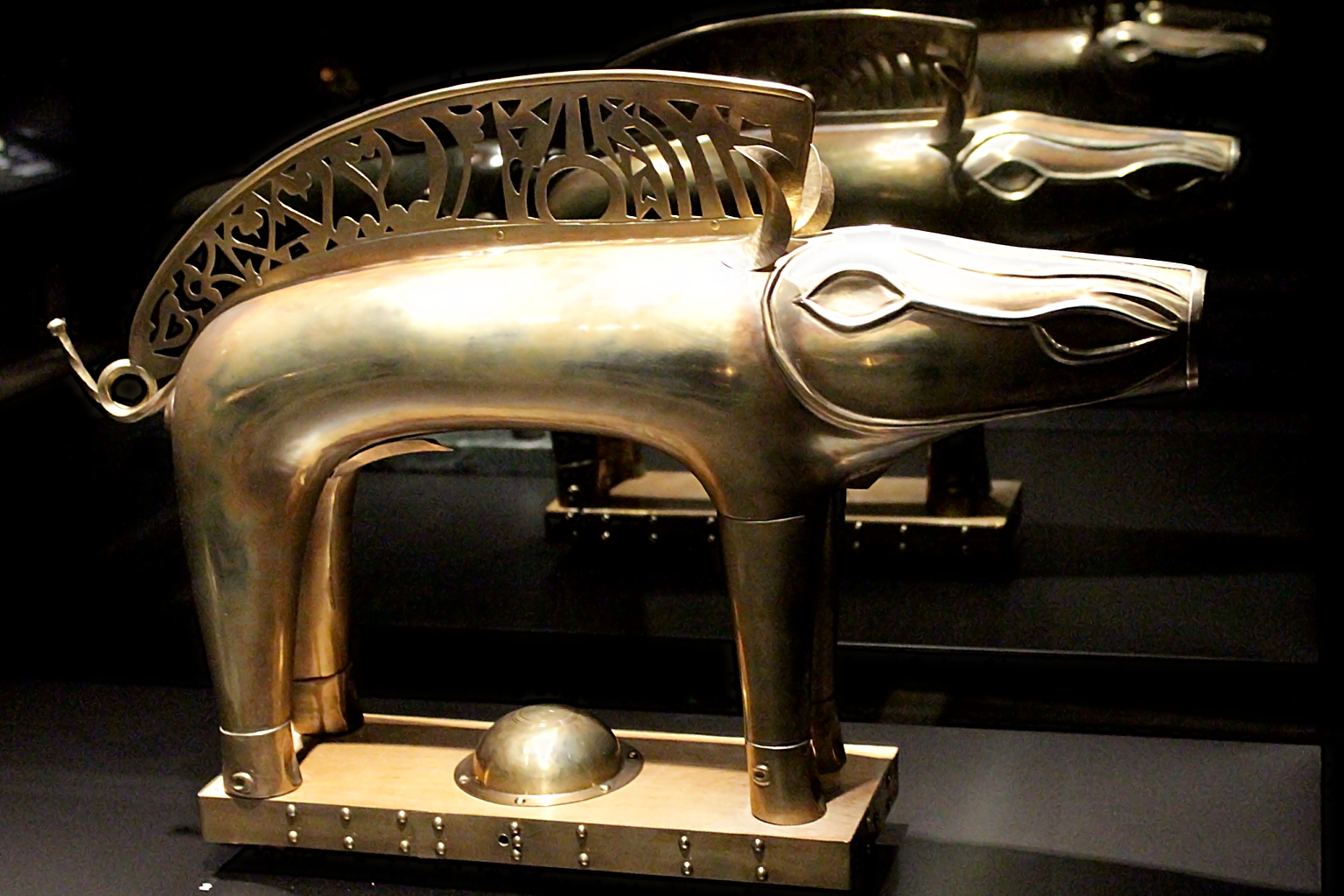 Electrotype by galvanoplasty of the wild boar signage found in Soulac. Cité des Sciences et de l'Industrie (Paris), "Les Gaulois, une expo renversante", from 19-10-2011 to 02-09-2012.